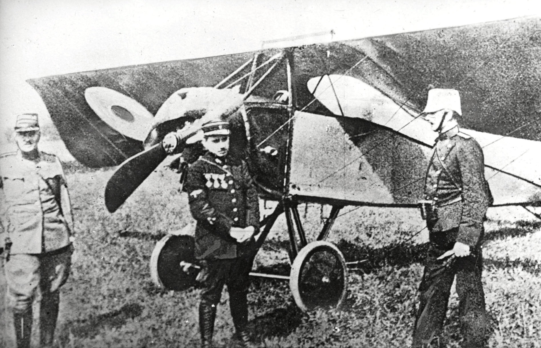 Morane-Saulnier L in French markings